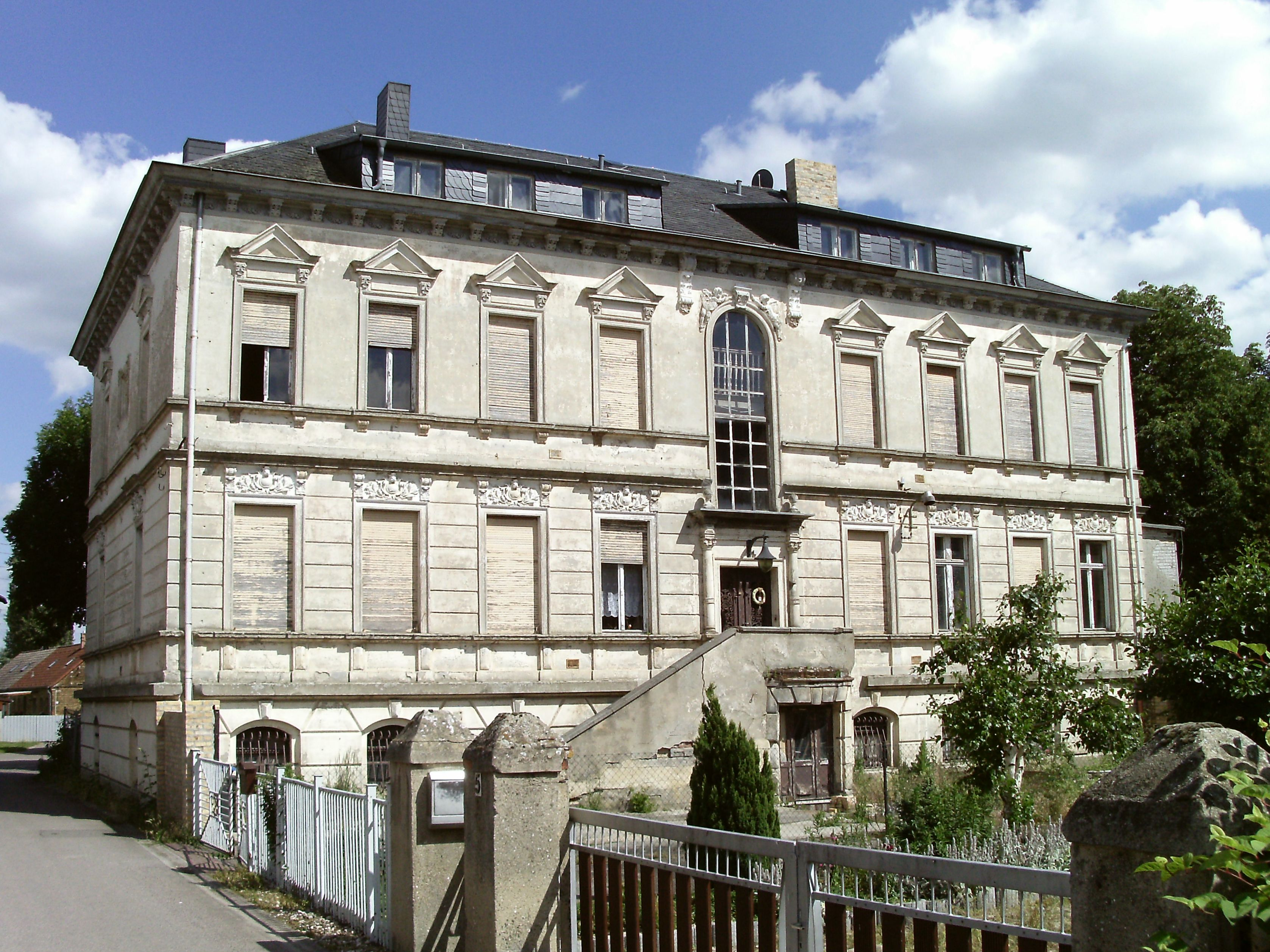 Serbitz manor house (Neukyhna, Nordsachsen district, Saxony)